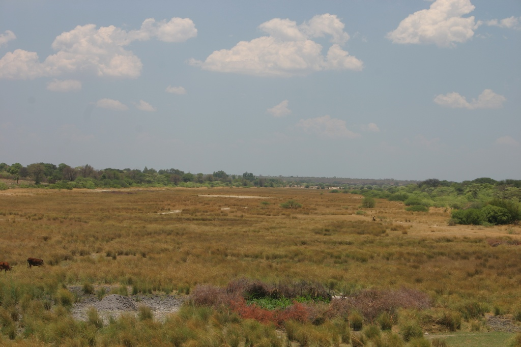 Omatako Oshana